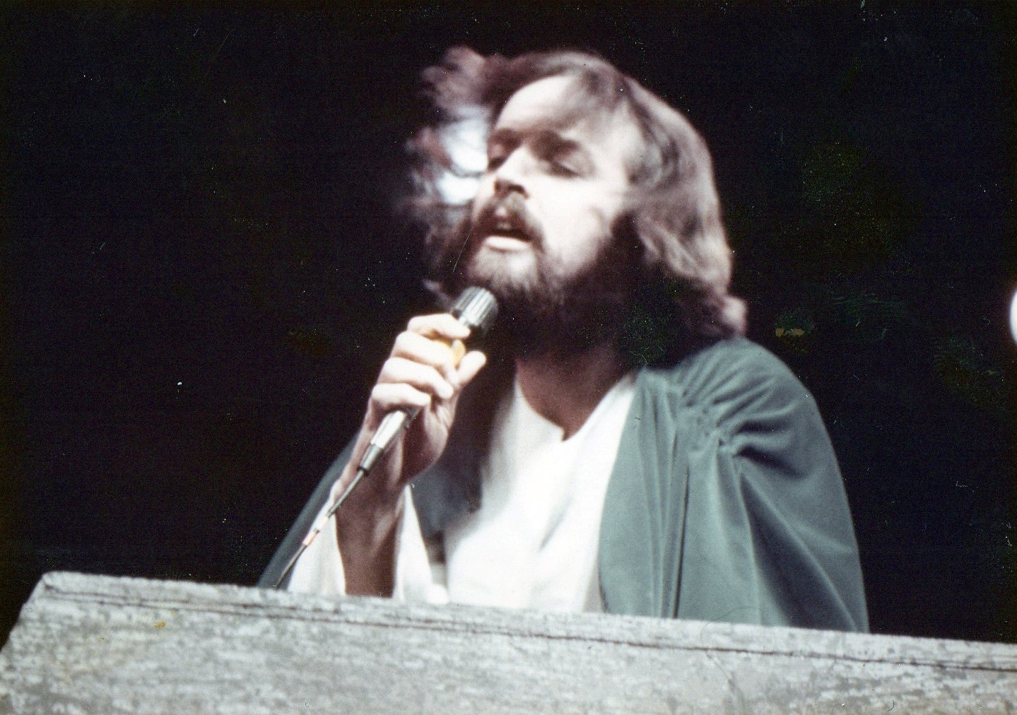 In Getsemane - Peter Winsnes, Jesus Christ Superstar 1972